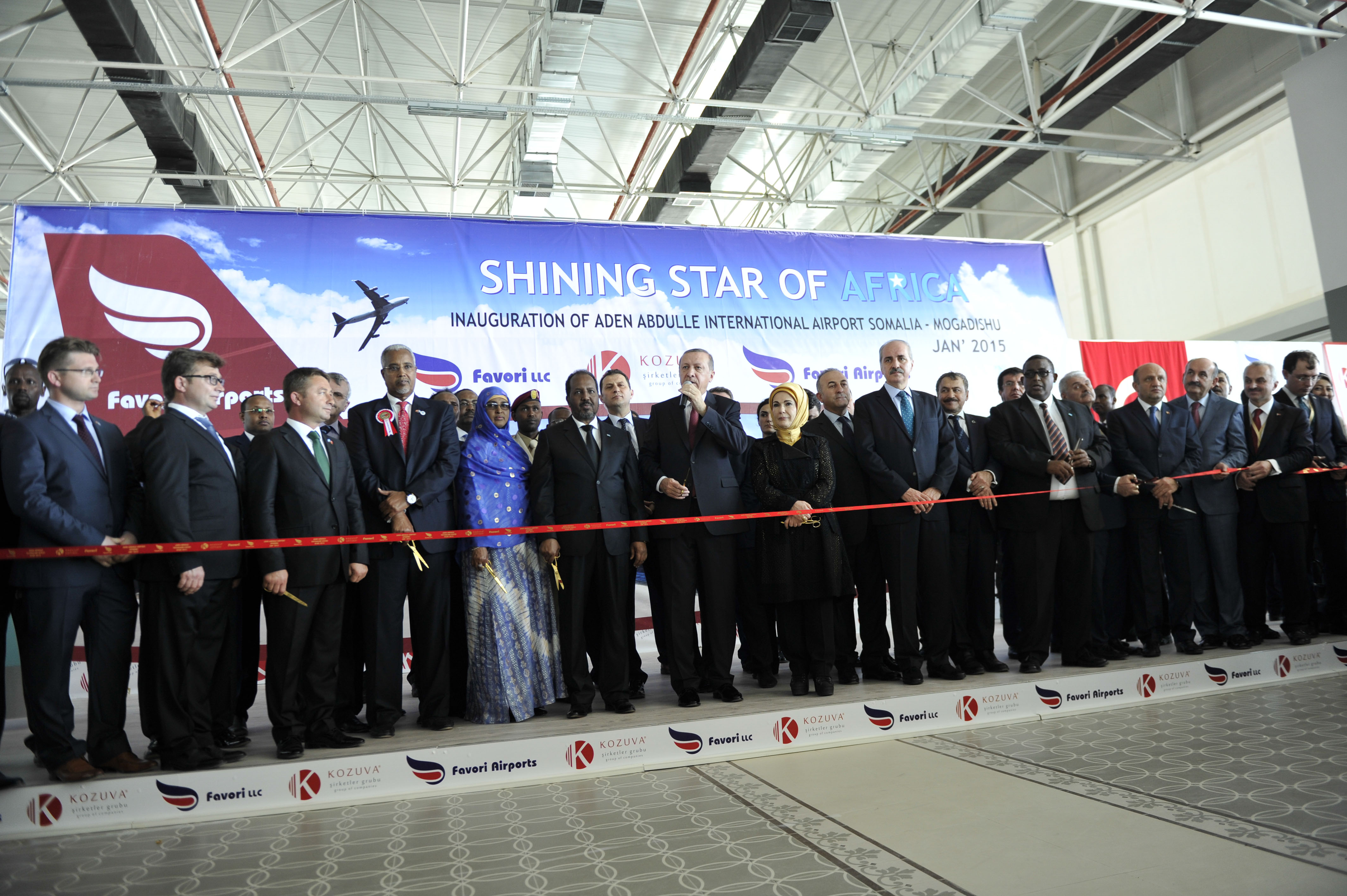 Turkey’s President Recep Tayyip Erdogan and Somali President Hassan Sheikh Mohamud open the new terminal of Aden Abdulle International Airport in Mogadishu, Somalia on January 25. 2015 AMISOM Photo / Ilyas Ahmed